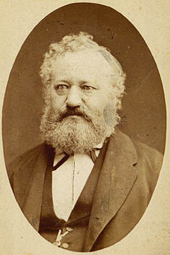 Lauritz Godtfred Rasmussen (1824-1893), Danish bronze metalworker